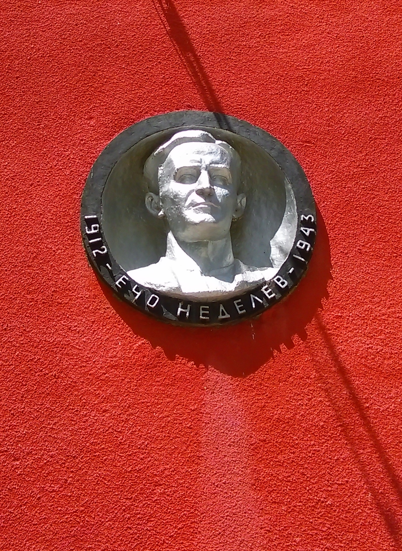 Echo Nedelev memorial in Chernichevo, Plovdiv province, Bulgaria